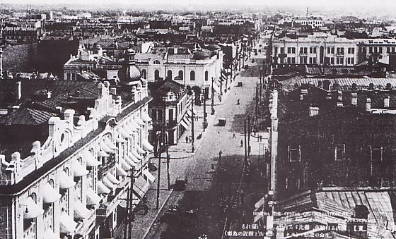 Kitaiskaia Street in Harbin